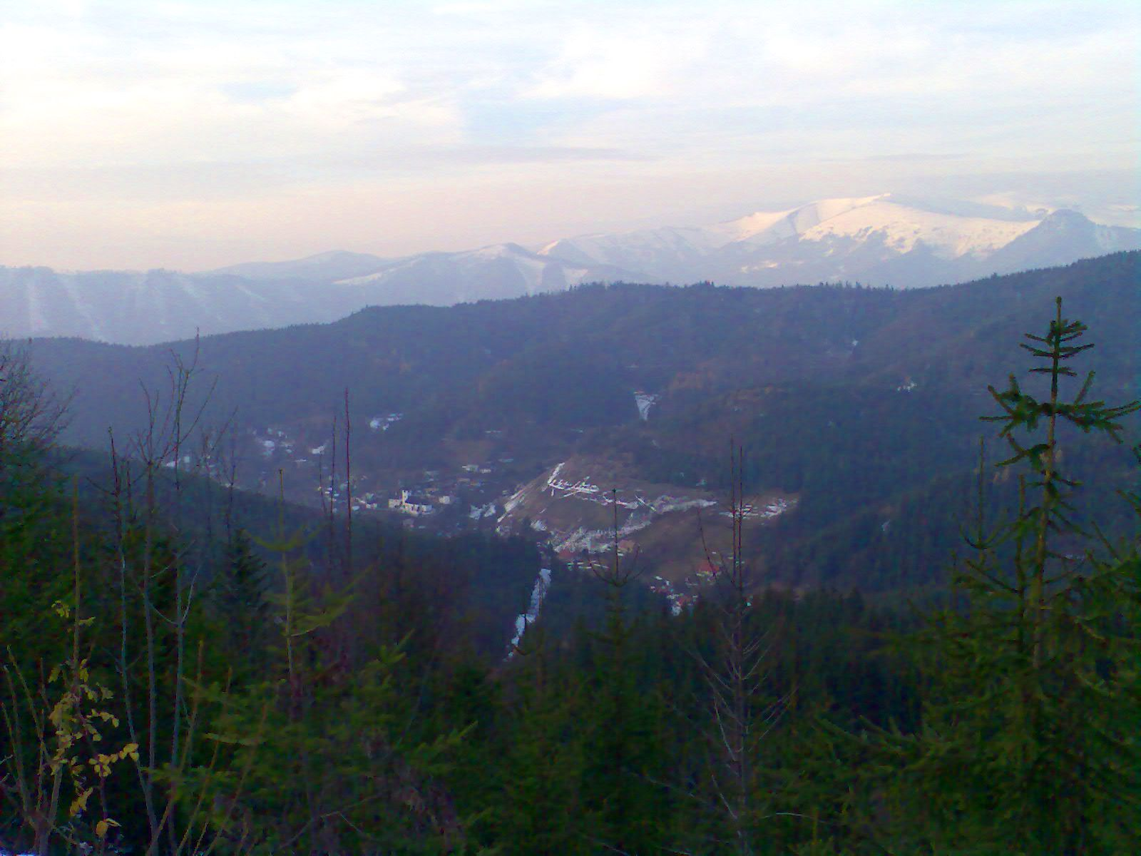 A view on Spania Dolina from Pansky Diel, with Krizna in the background. The church of Spania Dolina is surrounded by mullock tips, crated during the years of extensive mining of copper and silver.